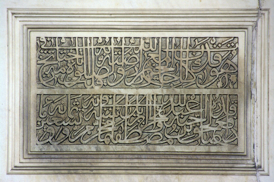 Inscription above the main entrance providing information about the founder of the mosque. Mustafa Pasha`s Mosque is located in the Old Bazaar of Skopje, Macedonia. It stands on a plateau above the old bazaar and is one of the most beautiful Islamic buildings in Macedonia. It was built in 1492 by Mustafa Pasha, vizier on the court of Sultan Selim I.